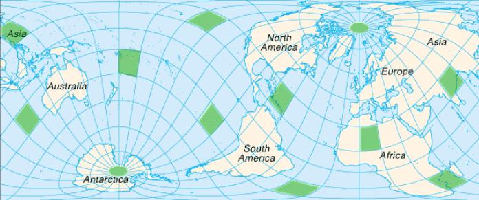 Map showing the approximate locations of the Vile Vortices.